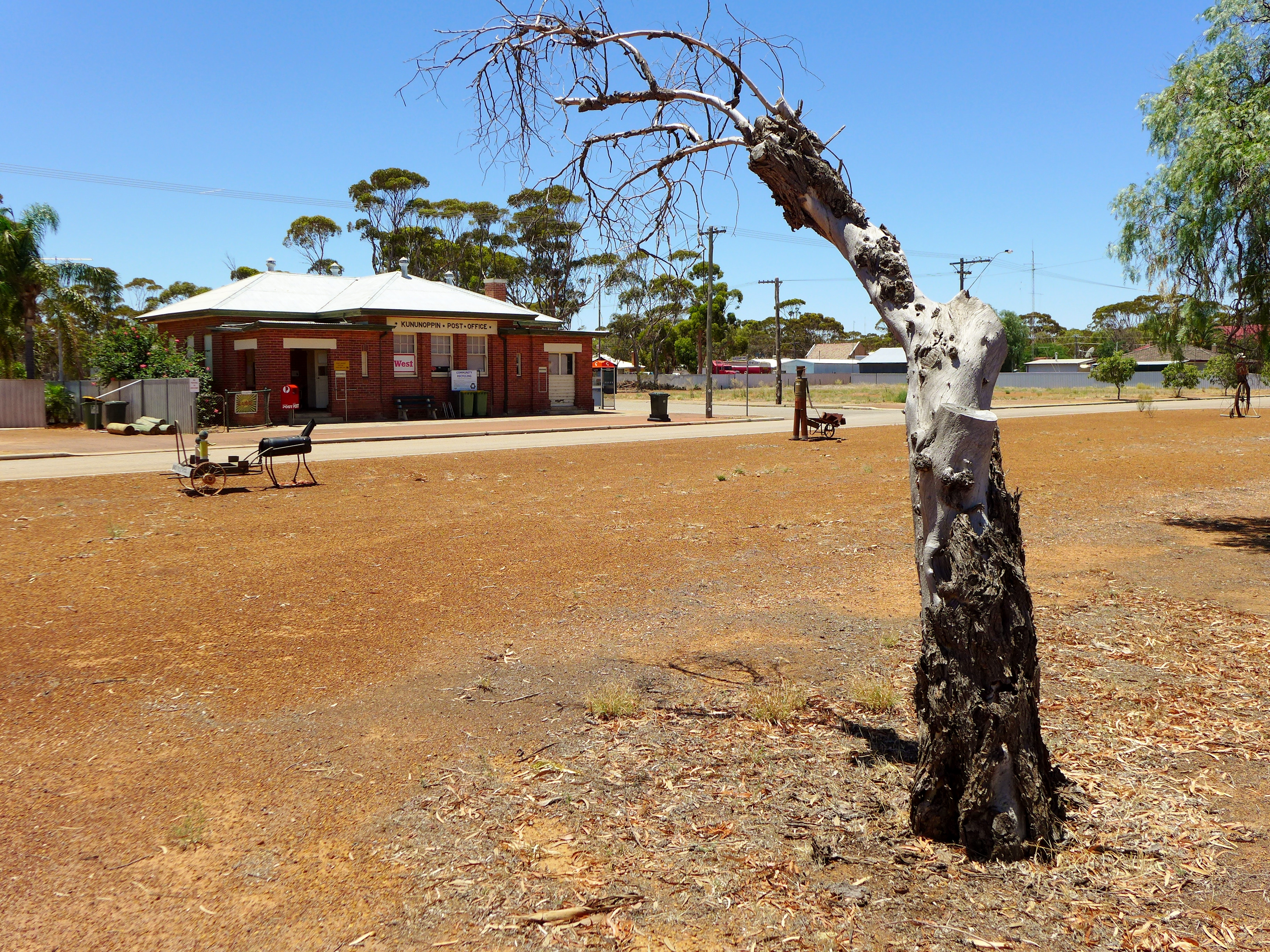 View of Wilson Street, the main street of Kununoppin, Western Australia. The building near the centre of the image is the Post Office.